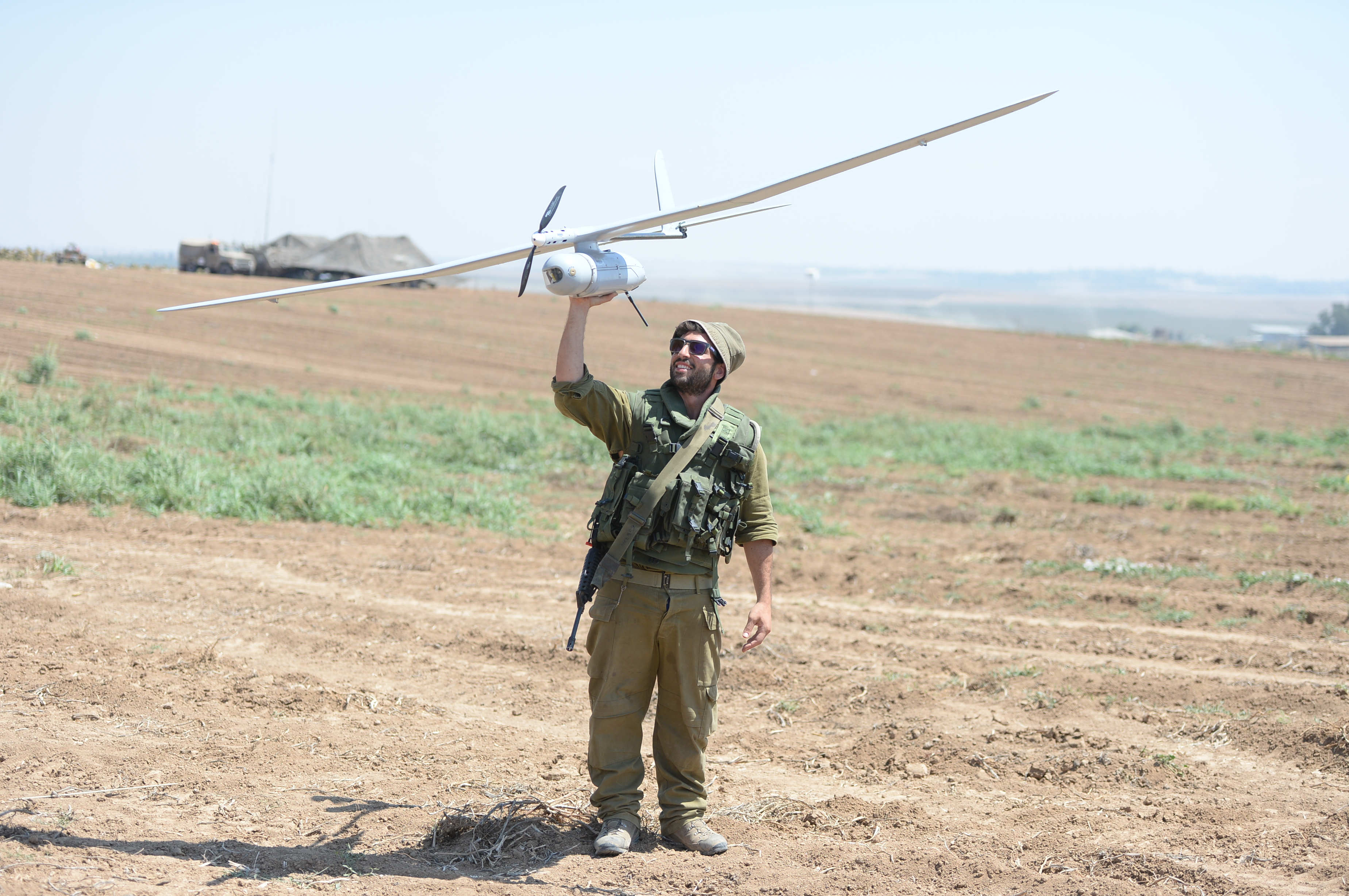 The IDF's elite Skylark unit, nicknamed the "Sky Riders," are the eyes of Operation Protective Edge. Since the beginning of the operation, the Sky Riders have provided footage of the events in Gaza.